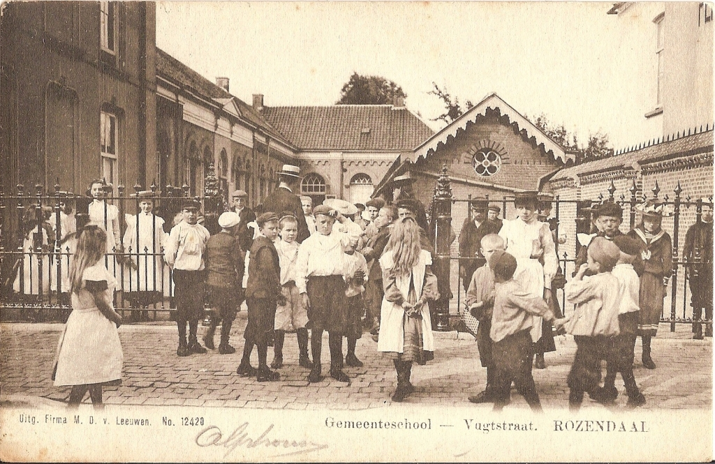 Picture showing the precursor school of the modern Jan Tinbergen College in Roosendaal, the Netherlands.